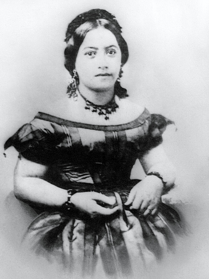 Queen Emma of Hawaii. A book The Queen's Medical Center dates this photograph to circa 1859. A similar ambrotype was presented to Lady Jane Franklin as a farewell gift in 1861 [1]